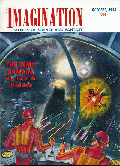 Cover of Imagination, October 1953